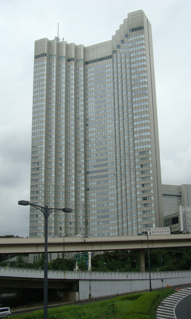 Former Akasaka Prince Hotel building, Tokyo. This building was completed in 1982 and is going to be pulled down by 2012.